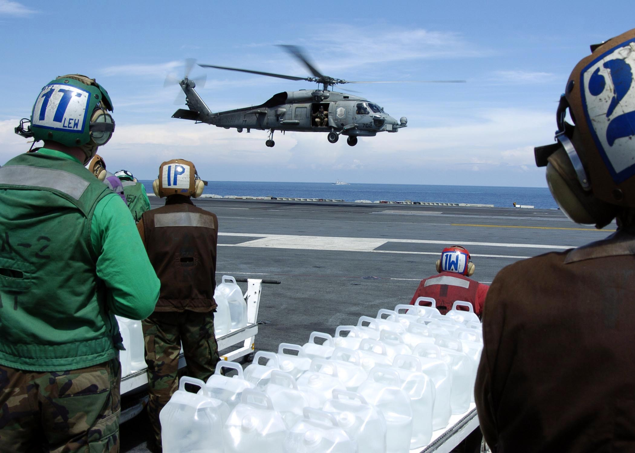 Indian Ocean (Jan. 11, 2005) – Sailors stand-by to load jugs of purified water into an approaching SH-60B Seahawk, assigned to the “Saberhawks” of Helicopter Anti-Submarine Squadron Light Four Seven (HSL-47), on the flight deck aboard USS Abraham Lincoln (CVN 72). Helicopters assigned to Carrier Air Wing Two (CVW-2) and Sailors from USS Abraham Lincoln (CVN 72) are supporting Operation Unified Assistance, the humanitarian operation effort in the wake of the Tsunami that struck South East Asia. The Abraham Lincoln Carrier Strike Group is currently operating in the Indian Ocean off the waters of Indonesia and Thailand. U.S. Navy photo by Photographer's Mate 3rd Class Tyler J. Clements (RELEASED)